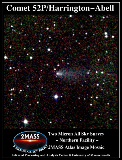 Atlas Image mosaic of comet 52P/Harrington-Abell, which was serendipitously observed by 2MASS on 1998 Oct 8 UT and is among twenty comets included in the 2MASS Second Incremental Data Release. Comets, of course, are within our Solar System and orbit the Sun, and therefore do not move sidereally (that is, as the stars do). Astronomers, however, have determined the ephemerides, or orbital parameters, for large numbers of known comets, so their positions in the sky along their orbits can be accurately predicted. Occasionally, comets, asteroids, and even planets can "accidentally" wander into the Survey. Comets reflect sunlight, yet near-infrared photometry can provide useful compositional and structural information about these objects. This comet was seen optically to experience a significant outburst in 1998 July (IAUC 6975) and became unusually bright by August (IAUC 6994), exceeding visual magnitude 11 by 1999 February (IAUC 7113). Its coma diameter was 1-2´ and tail length of about 2´ in 1998 (IAUC 6975). In 2001 December the comet was seen to have split into two (IAUC 7769), following a brightening by more than two magnitudes between 2001 August and September (IAUC 7773).